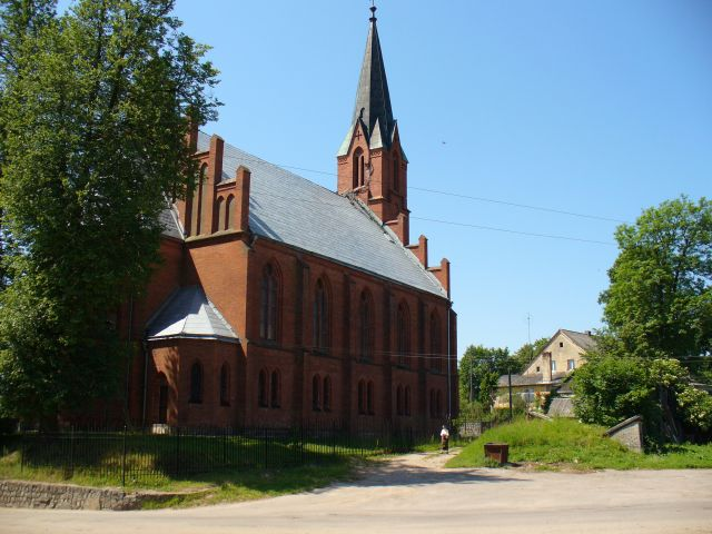 Church in Krasnoznamensk.